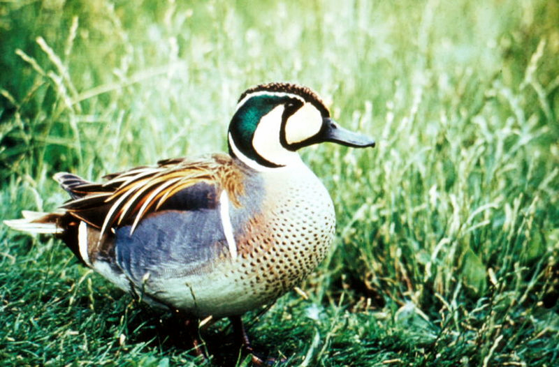 male Baikal Teal (Anas formosa)